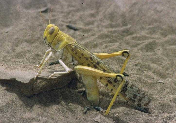 Desert locust (Schistocerca gregaria) laying eggs during the 1994 locust outbreak in Mauritania (photographed by Christiaan Kooyman).